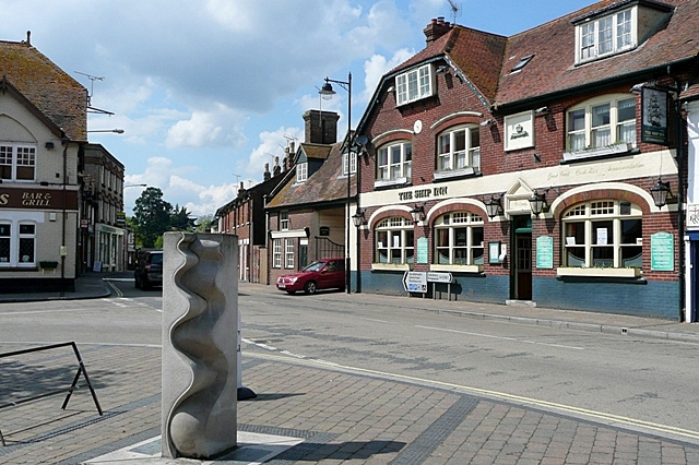 Centre of Fordingbridge This is the junction of Provost Street (left), Shaftesbury Street (ahead) and High Street (right) that can be regarded as the town centre. The Ship Inn probably indicates a time when the River Avon was navigable as far as the town, and the town name clearly indicates that this was the ford and later the bridge over the river. I would appreciate information about the sculpture in the foreground. The sculpture is by Paul Wilson of Salisbury. (